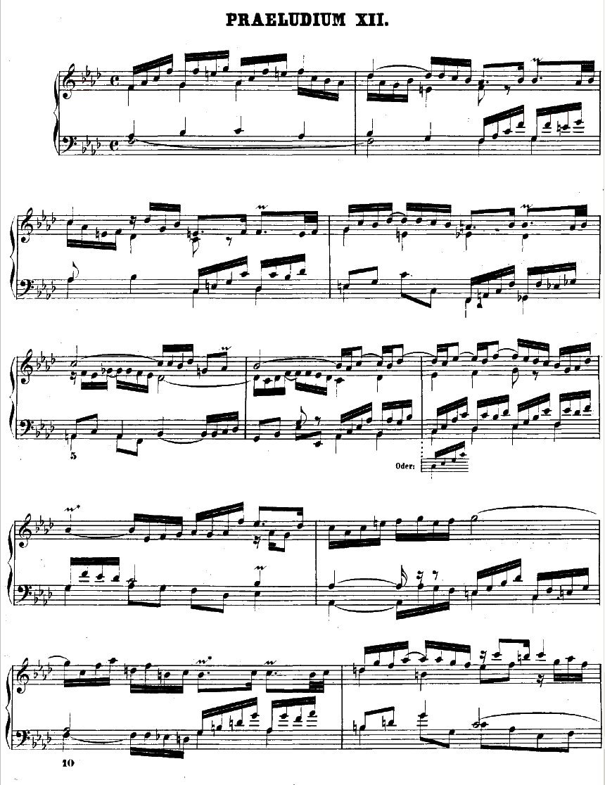 The Well-Tempered Clavier vol. I Prelude in F minor (BWV 857) page 01 Leipzig Breitkopf & Haertel, 1866 Sheet Music